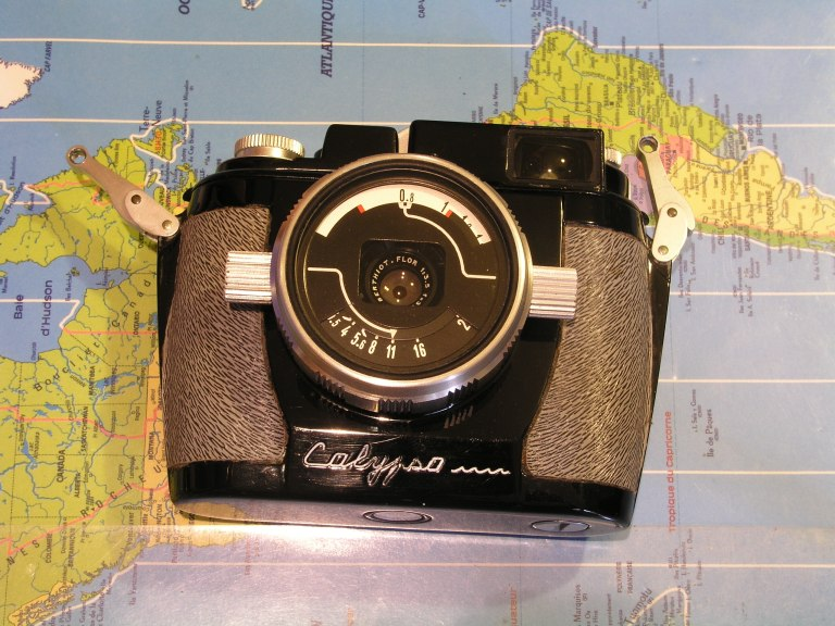 Calypso phot